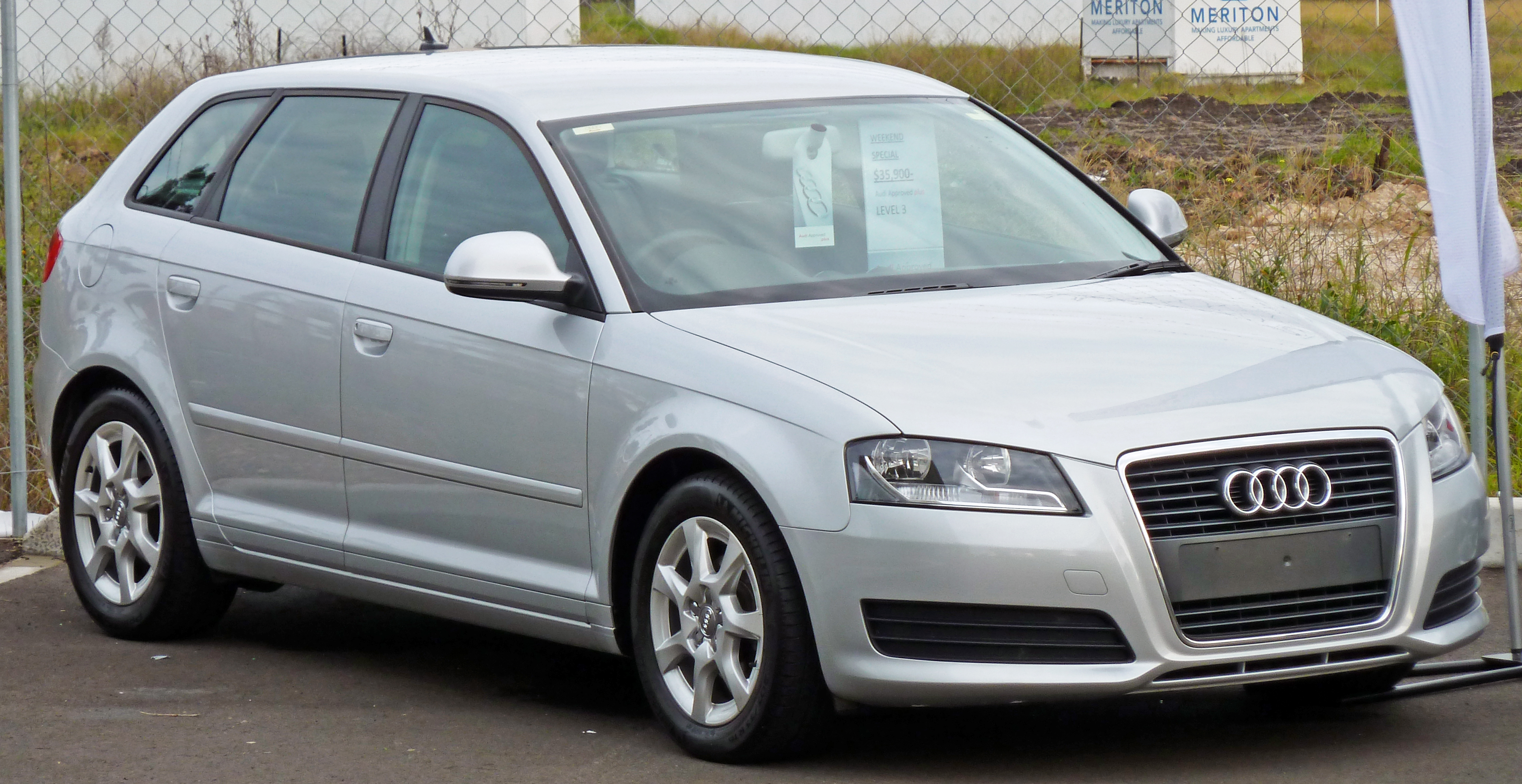 2009 Audi A3 (8PA) 1.9 TDIe 5-door Sportback. Photographed at the Audi Centre Sydney, Zetland, New South Wales, Australia.